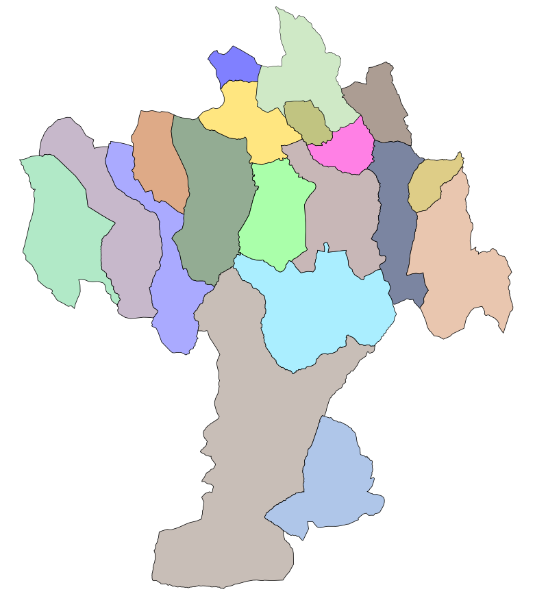 Outline map of Vedensky District with settlements.